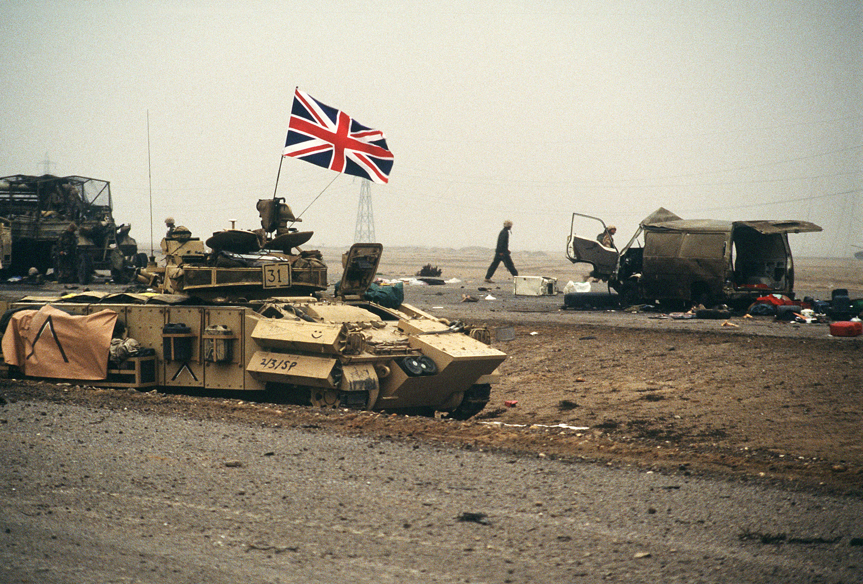 The British flag waves from an armored personnel carrier of the 7th Brigade Royal Scots as it advances along the Basra-Kuwait Highway near Kuwait City following the retreat of Iraqi forces during Operation Desert Storm.